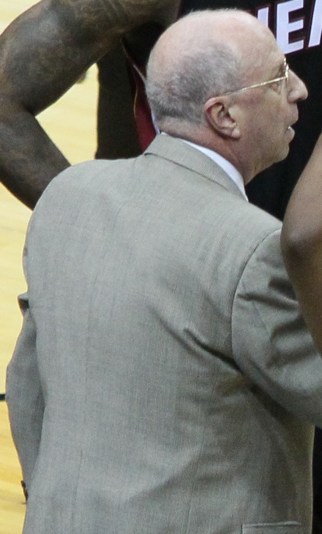 Assistant coach Ron Rothstein coaches Miami Heat players in 2010.